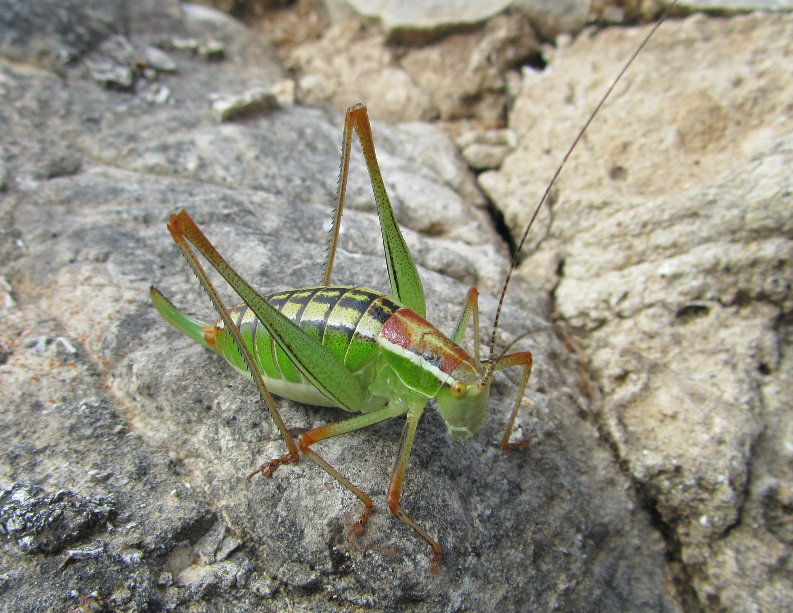 Bush cricket on a rock. Photo taken at San Felice Circeo, Italy.